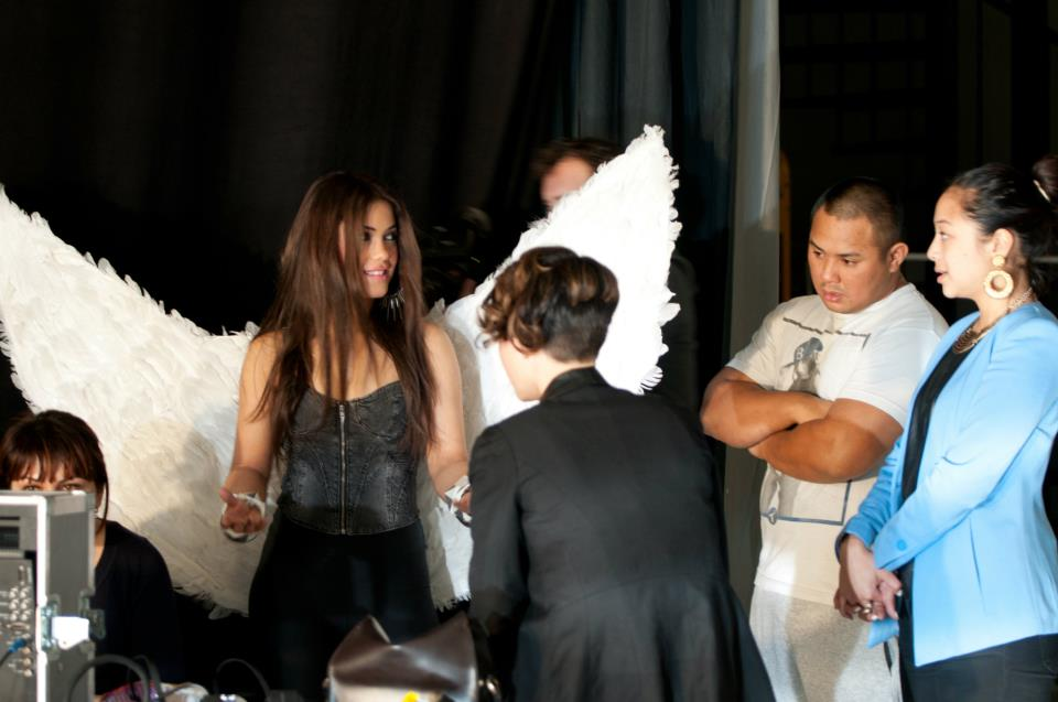 My friend took this image of me when we was making my music video -Open Your Eyes. I own the rights to this image